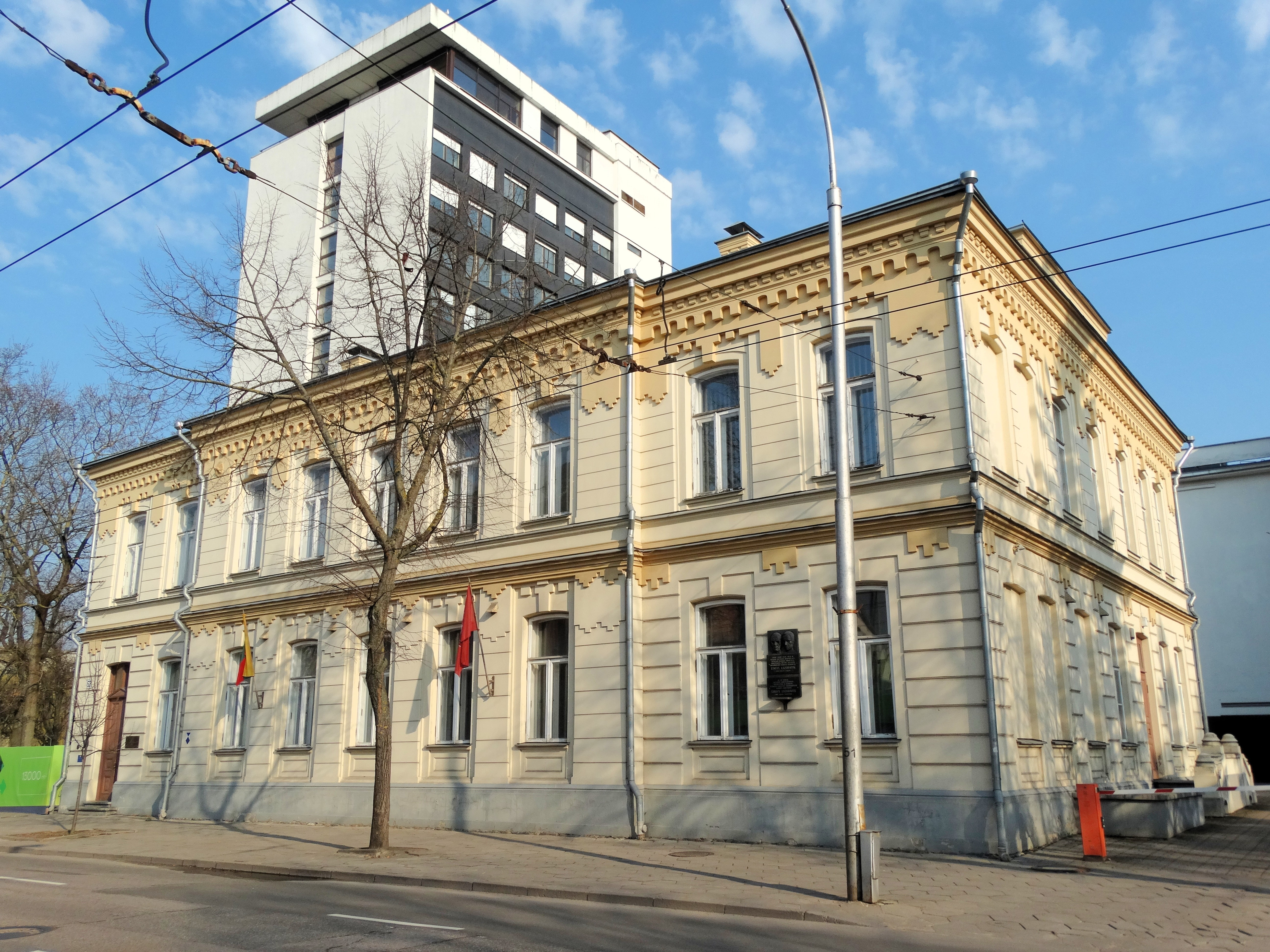 Rector's Office, Vytautas Magnus University, Kaunas